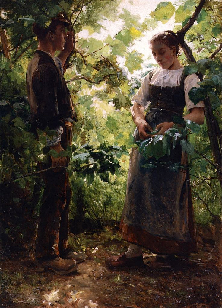 Laugée painting of two young peasants in a springtime setting. Paris Salon painting of 1891. (Private collection, France)